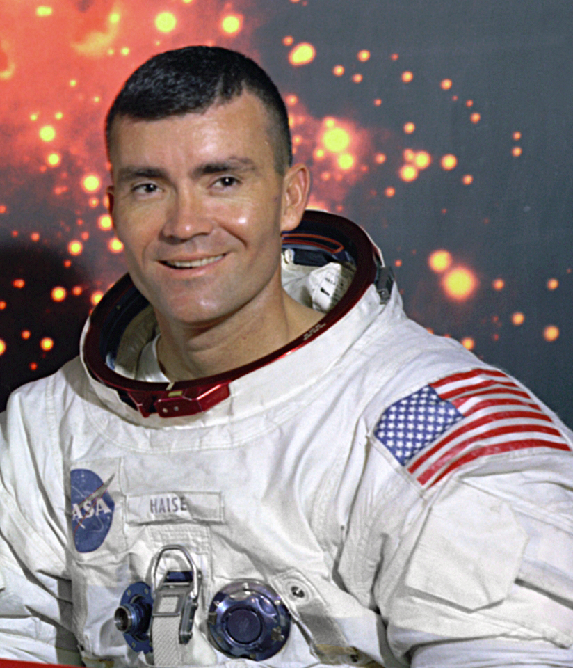 Astronaut Fred W. Haise, Jr.